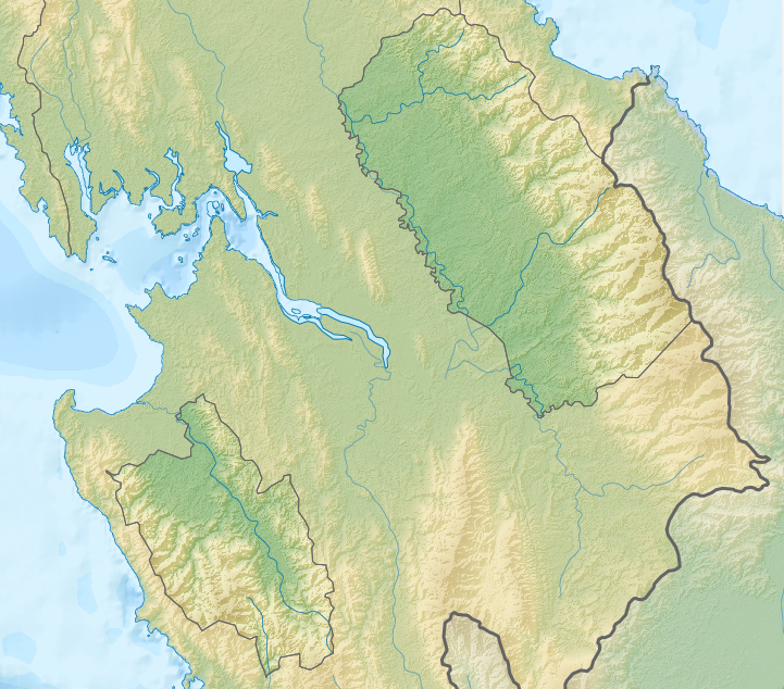 Relief map of Embera Wounaan comarca, Panama.